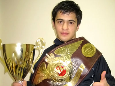 Роман Маилов